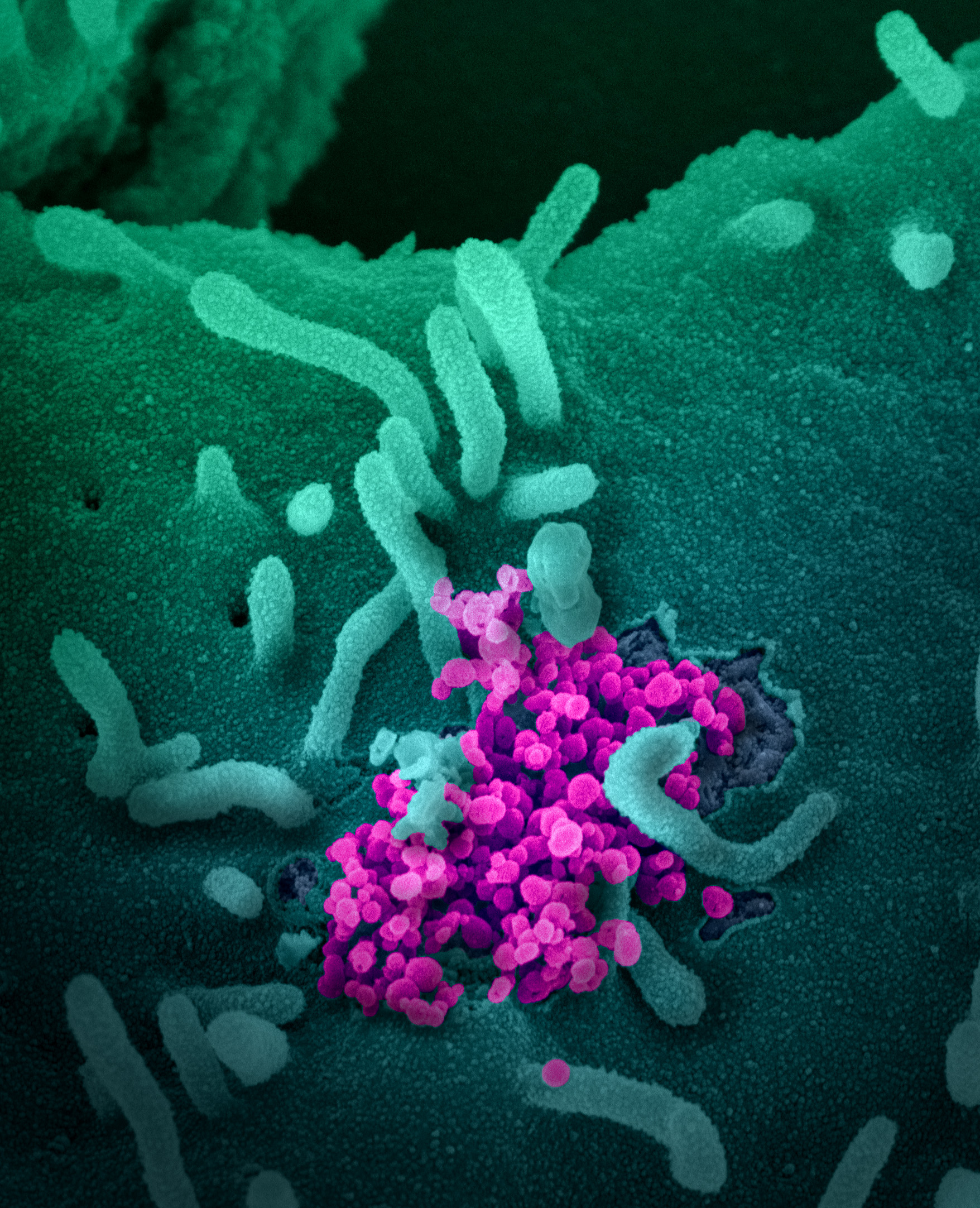 This scanning electron microscope image shows SARS-CoV-2 (round magenta objects) emerging from the surface of cells cultured in the lab. SARS-CoV-2, also known as 2019-nCoV, is the virus that causes COVID-19. The virus shown was isolated from a patient in the U.S. Credit: NIAID-RML